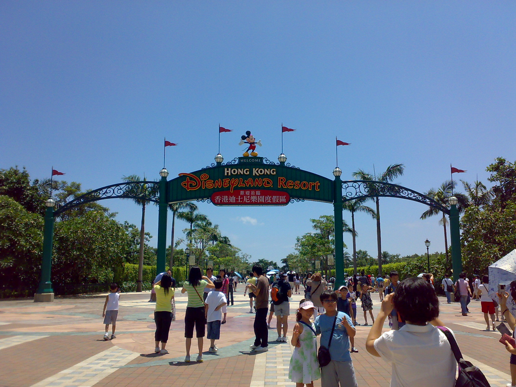 The entrance of Hong Kong Disneyland Resort 粵語: 香港迪士尼樂園度假區嘅入口 中文（香港）: 香港迪士尼樂園度假區的入口